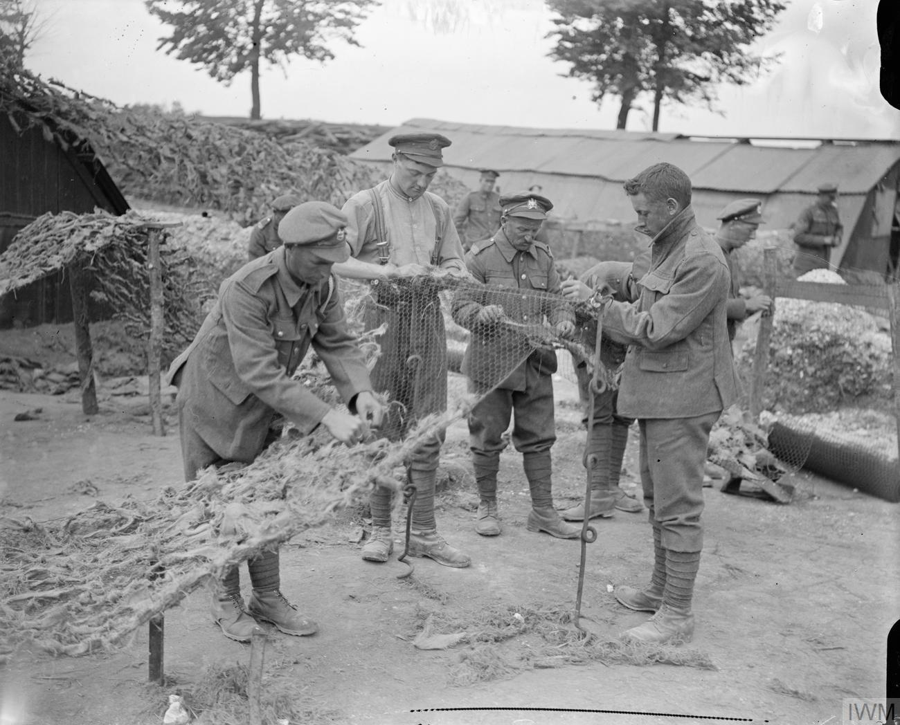 Camouflage Techniques on the Western Front, 1914-1918 Making camouflage netting at Basseux, 16 June 1918.